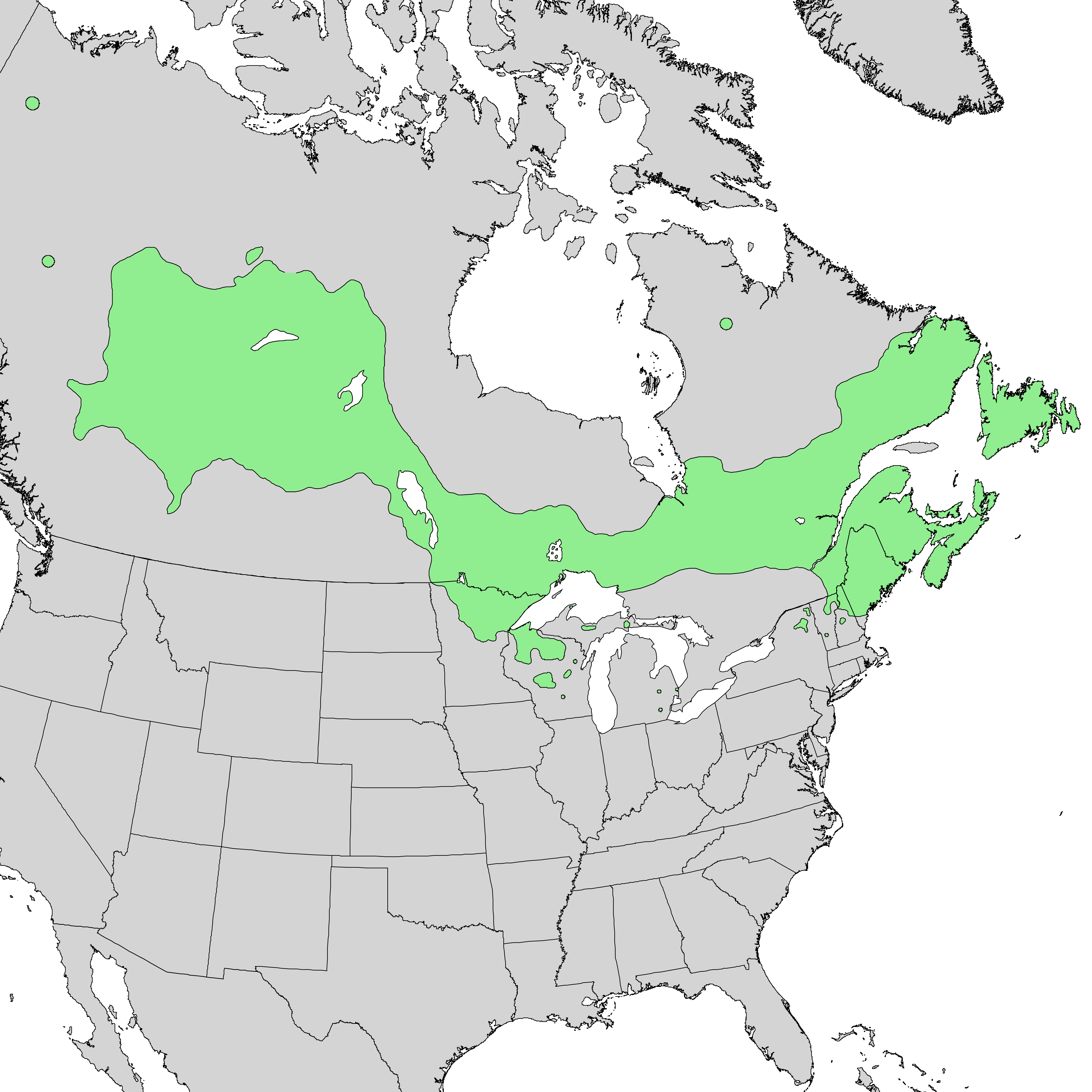 Natural distribution map for Salix pyrifolia (balsam willow)